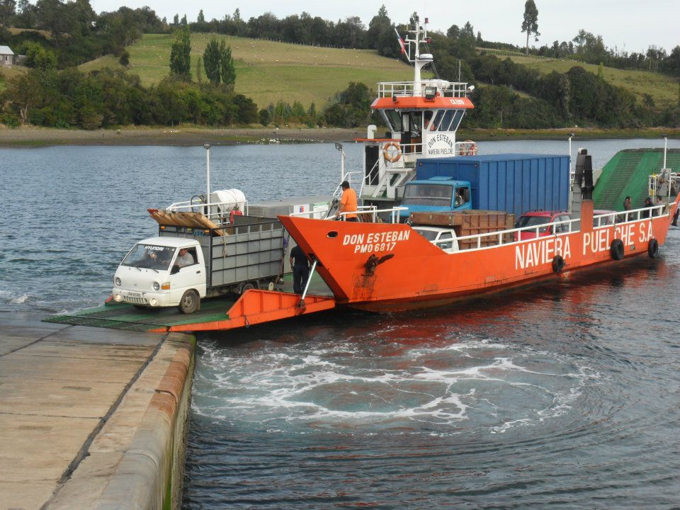 X Región